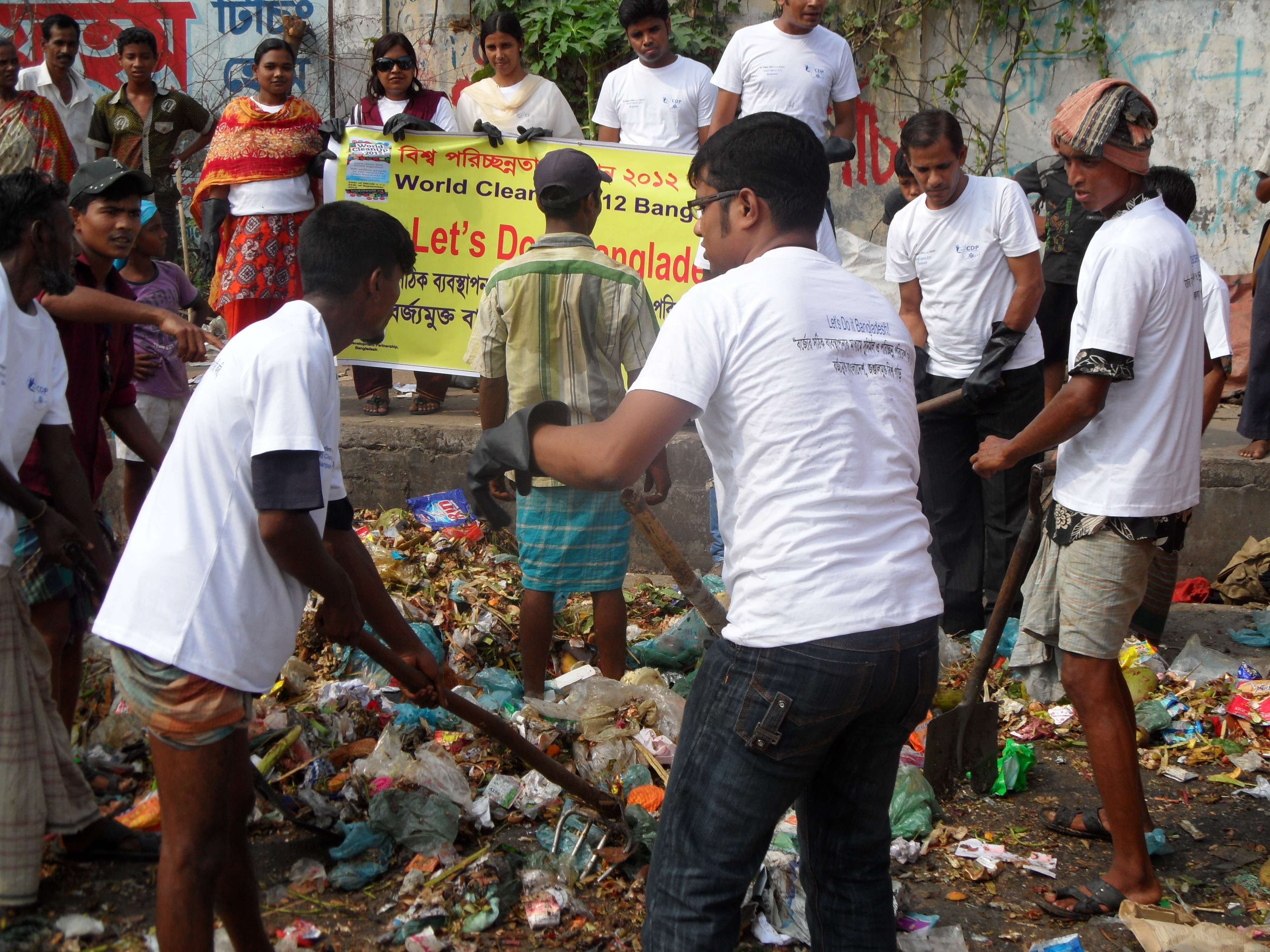 World Cleanup 2012 Event in Bangladesh was held in 5th June 2012. It took place in 66 sub districts through the 66 organizations with the participation of 38000 volunteers from the different professions those who cleaned about 1600 tons of waste one day.